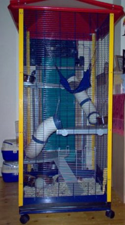 Rat cage, containing up to 8 rats. Photo: Joanna Servaes (With thank from her website)